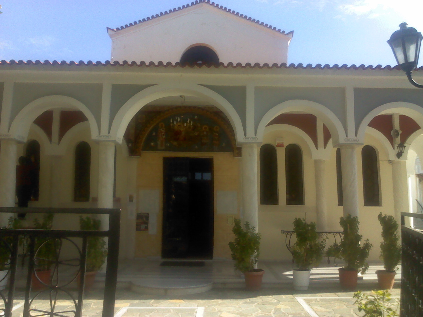 Churche Koimisis Theotokou Nea Palatia